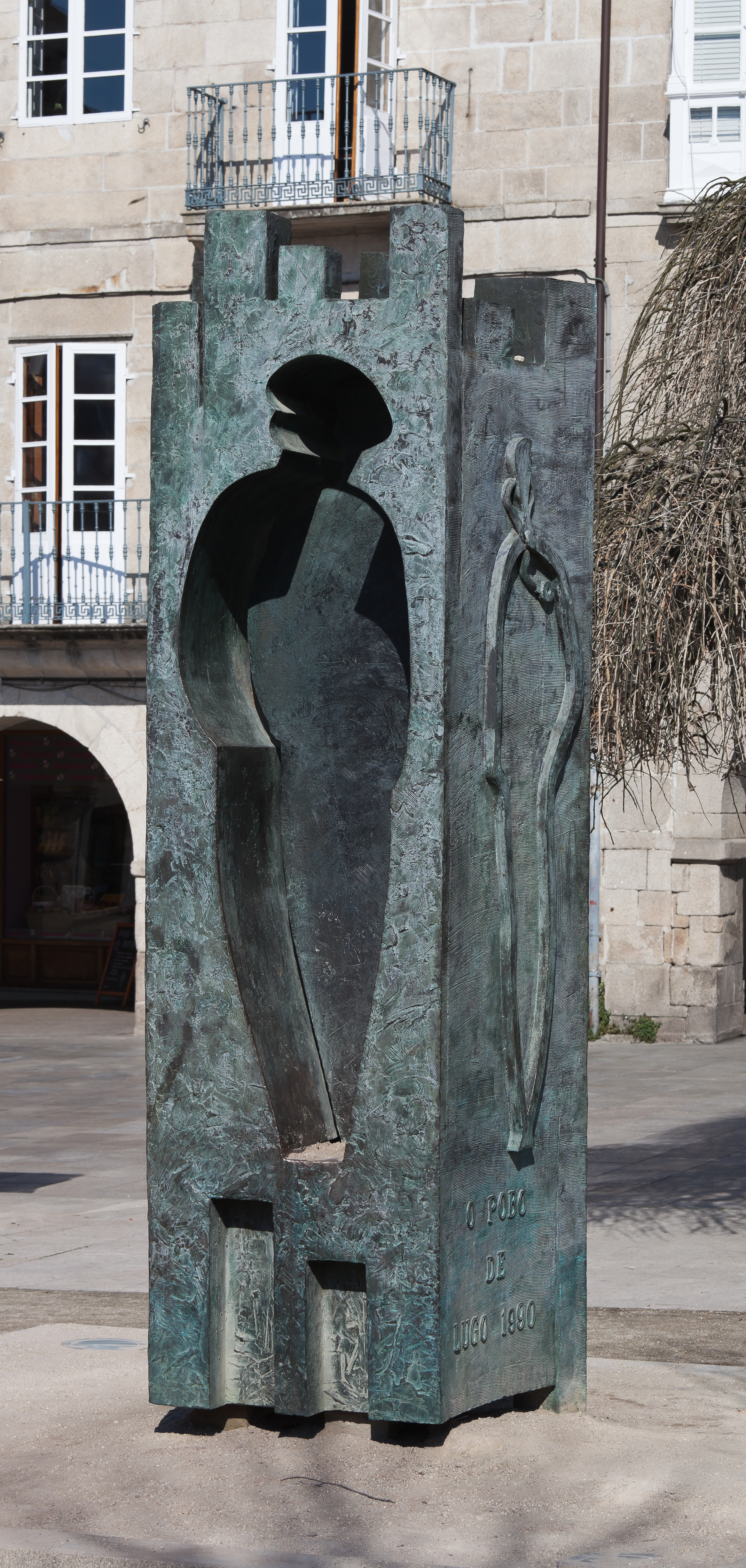 Sculpture in Lugo, Galicia, SpainUnknown escultura en lugo, galiza